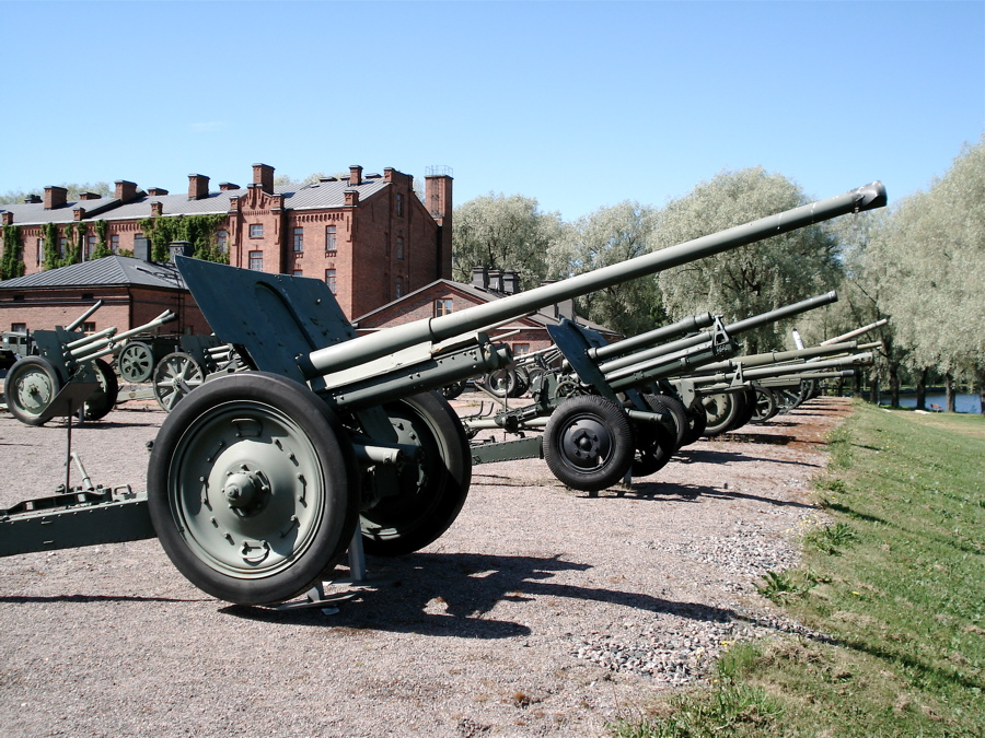 Soviet 76.2 mm M1936 F-22 gun, displayed in Hämeenlinna Artillery Museum. The barrel of this gun was manufactured in 1937 and the gun-carriage in 1939. Right behind is is the improved F-22 USV gun. Photo taken on June 18, 2006. Source: Photo by me, User:Balcer.